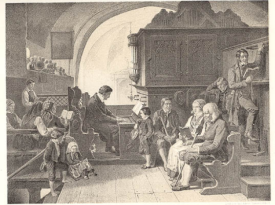 Picture from the Swedish magazine "Litografiskt Allehanda" (1859-65.).